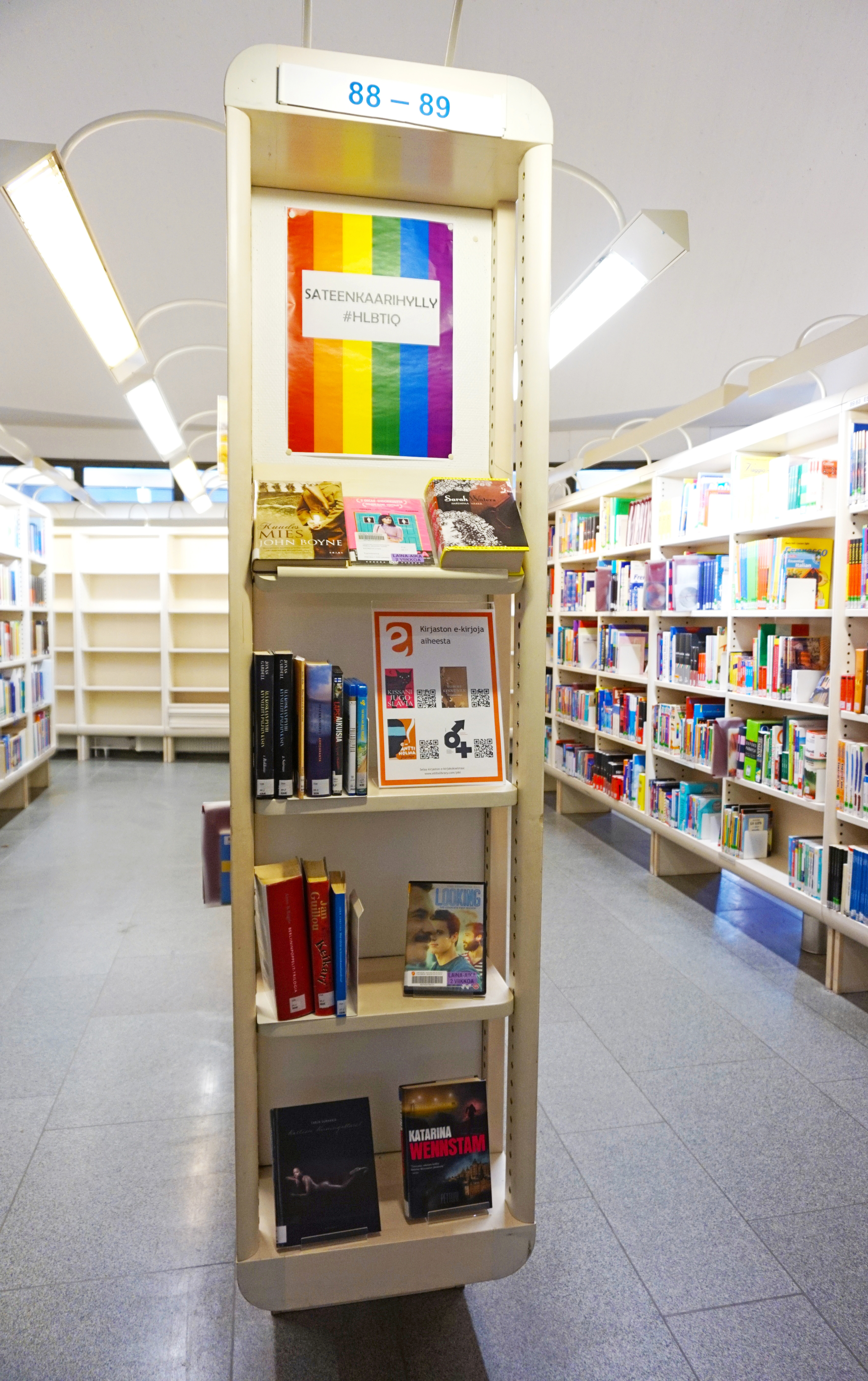 "Rainbow shelf" in Tampere City Library, Finland.